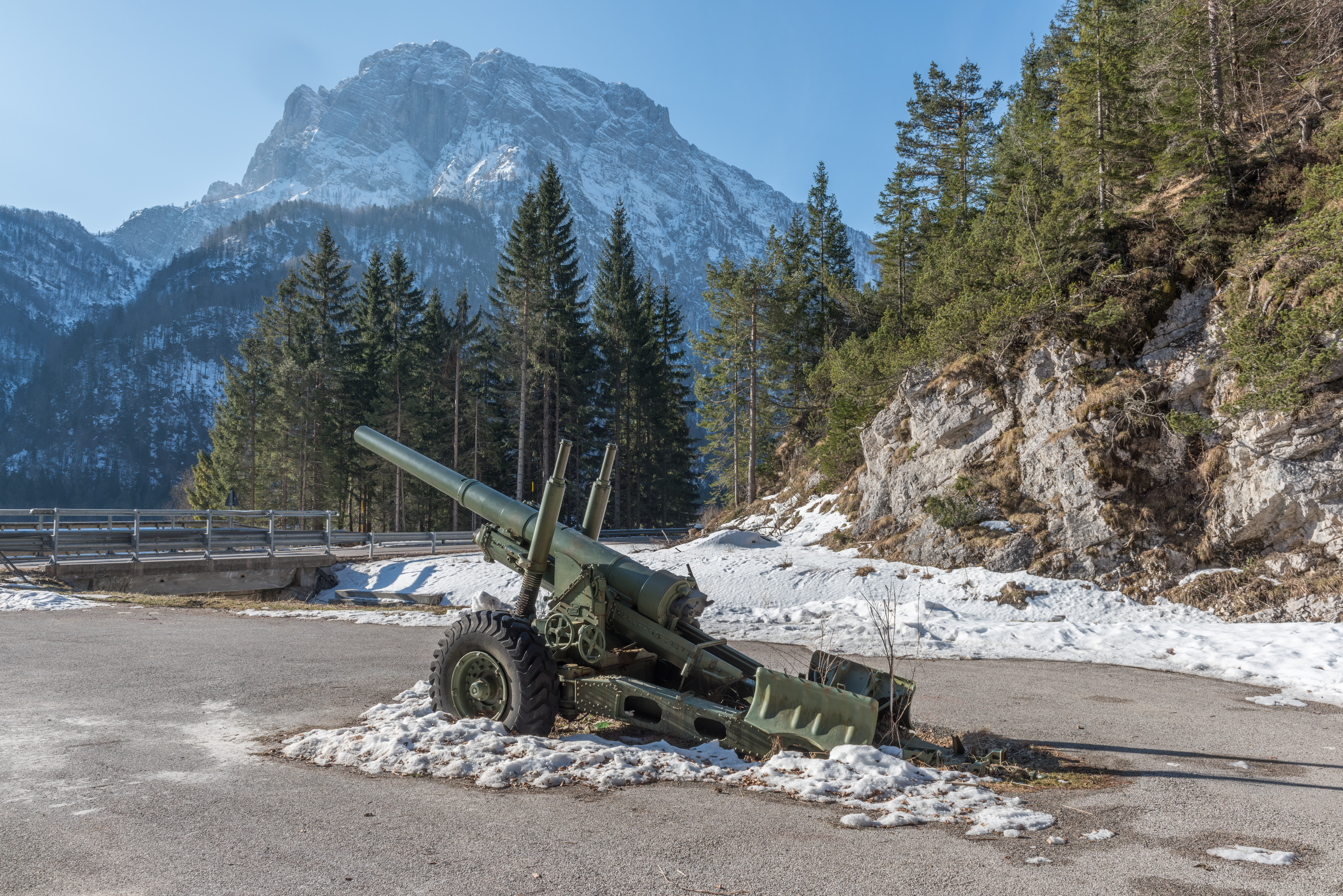 Howitzer in front of Fort Lake Predil, municipality Tarvisio in Valle Rio del Lago, region Friuli-Venezia Giulia, Italy, EU